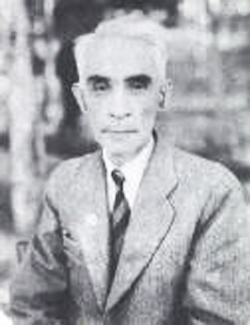 Masʿūd Ṣabrī (Masud Sabri)